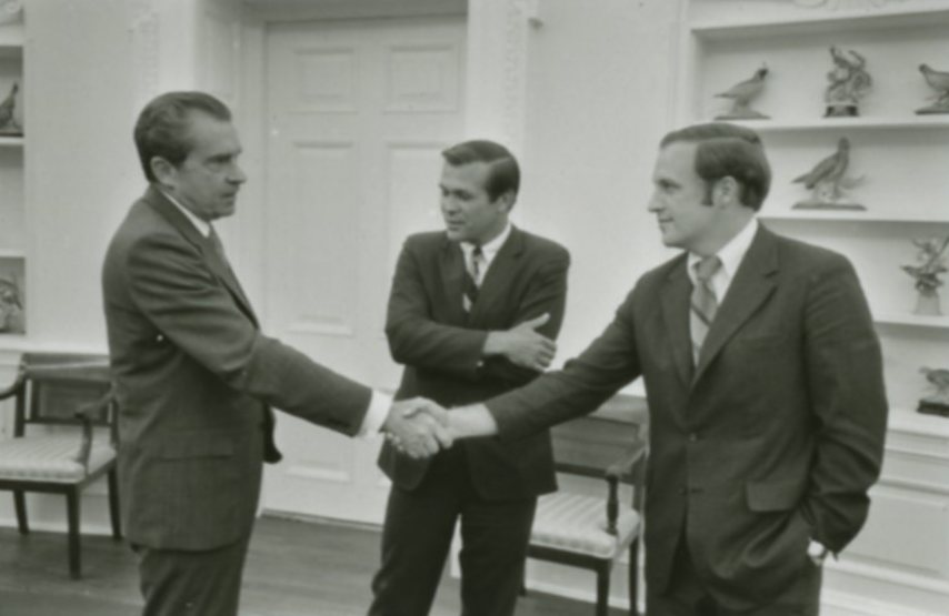 ● Frame(s): WHPO-4382-01A-02A, President Nixon standing in the Oval office with Donald Rumsfeld while shaking hands with Dick Cheney. 9/11/1970, Washington, D.C., White House, Oval Office. President Nixon, Richard Cheney, Richard (Dick) Cheney, Donald Rumsfeld ●Frame(s): WHPO-4382-03A, President Nixon standing in the Oval office during a meeting with members of The Office of Economic Opportunity. (OEO) 9/11/1970, Washington, D.C., White House, Oval Office. President Nixon, Dwight Chapin, members of The Office of Economic Opportunity.